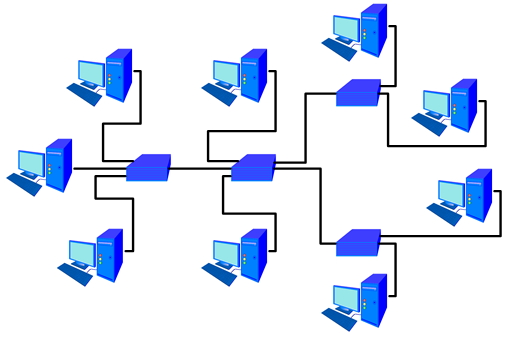 Digital Communications Network